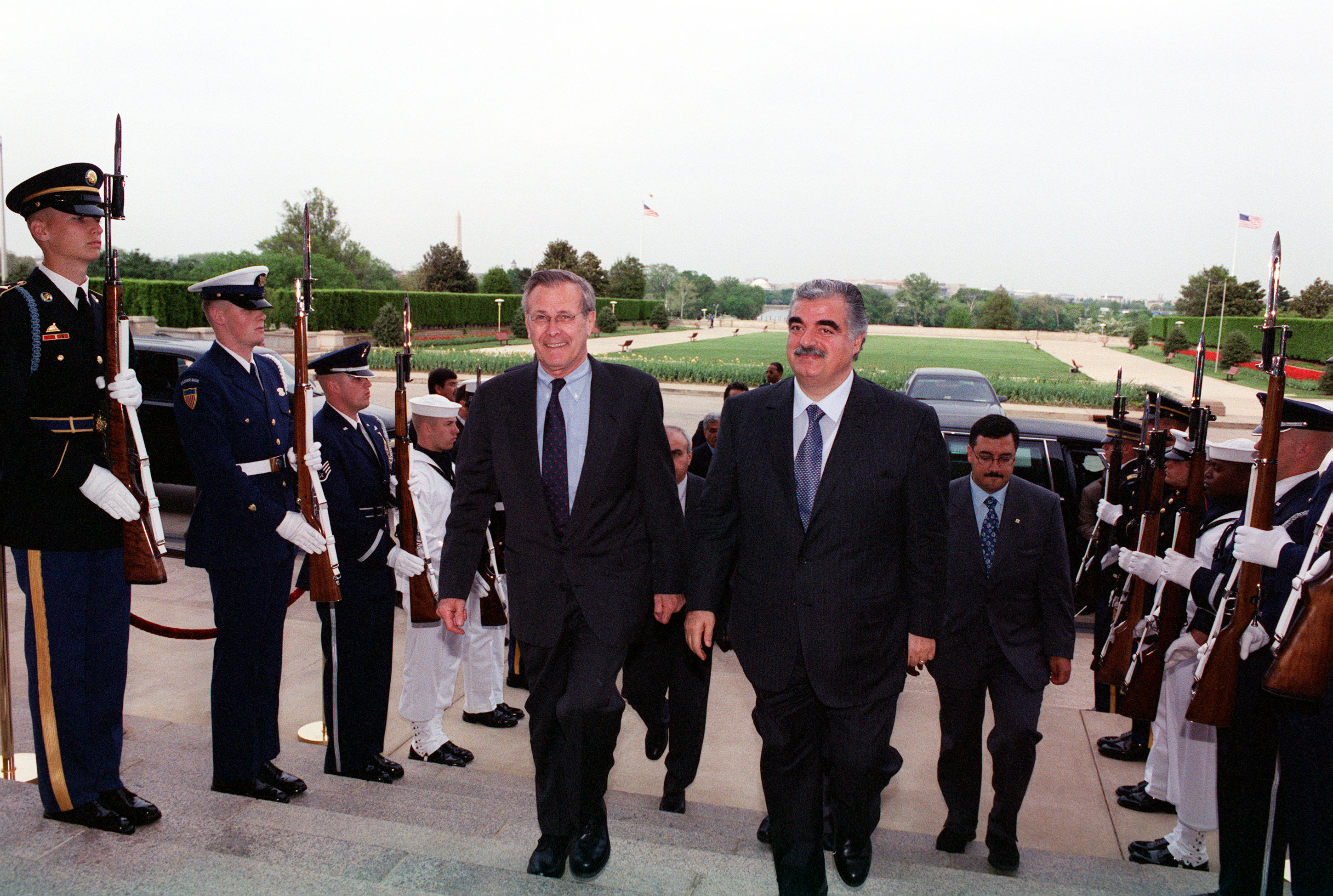 Secretary of Defense Donald H. Rumsfeld (left) escorts Lebanese Prime Minister Rafiq Hariri into the Pentagon on April 25, 2001. Rumsfeld and Hariri will meet to discuss a range of regional policy and security issues of interest to both nations.